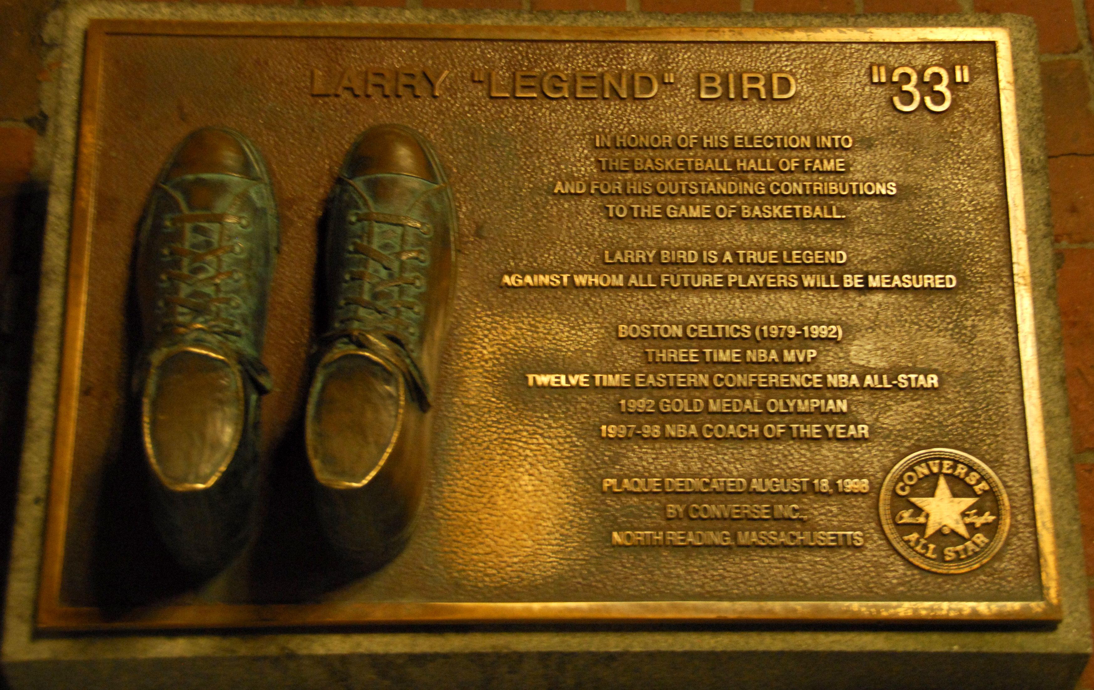 Larry Bird monument, in Boston